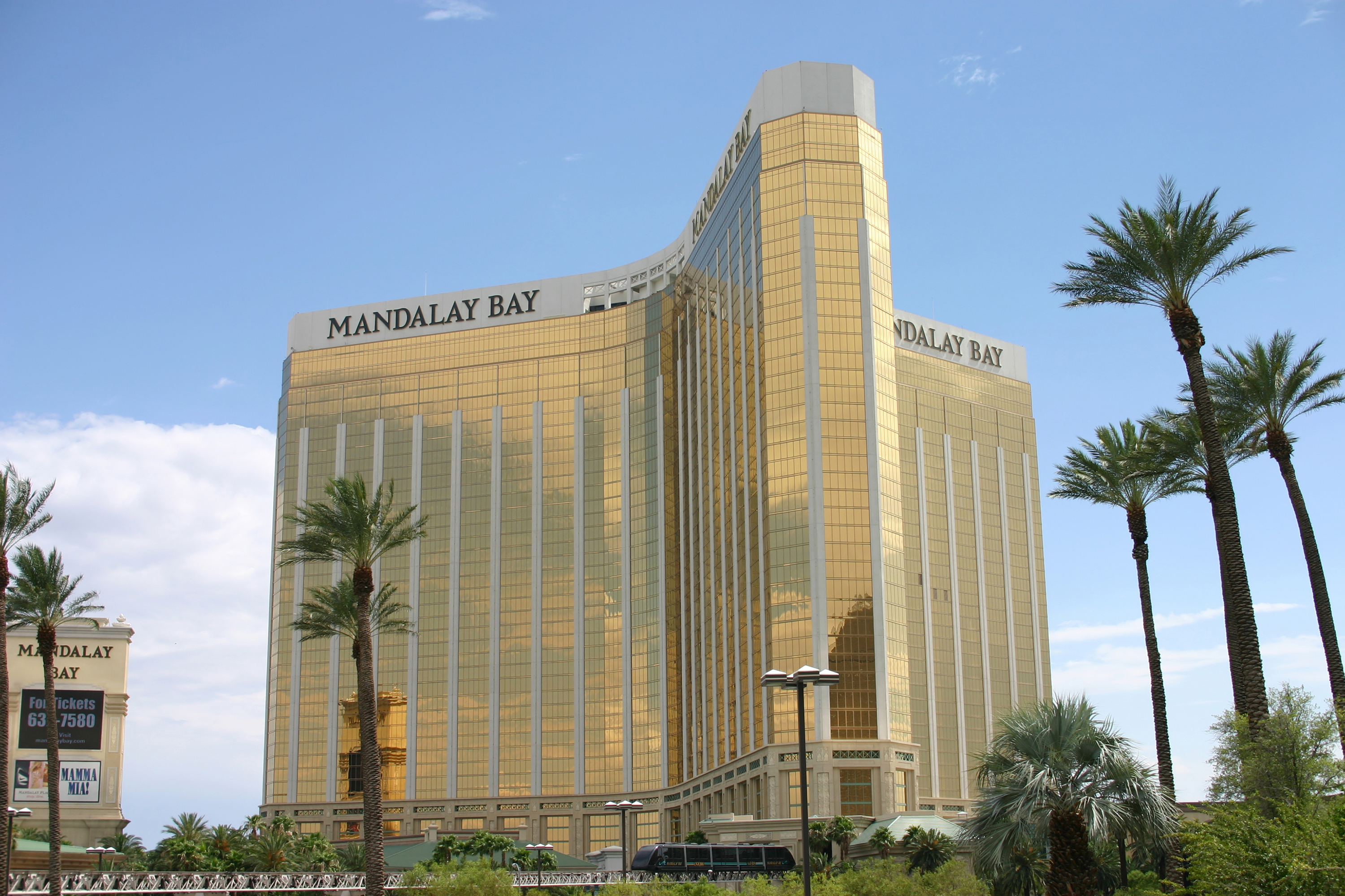 Mandalay Bay Hotel Las Vegas (July 15 2008)